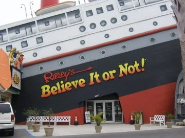 Exterior of the Ripley's Believe It Or Not museum in Panama City Beach, Florida